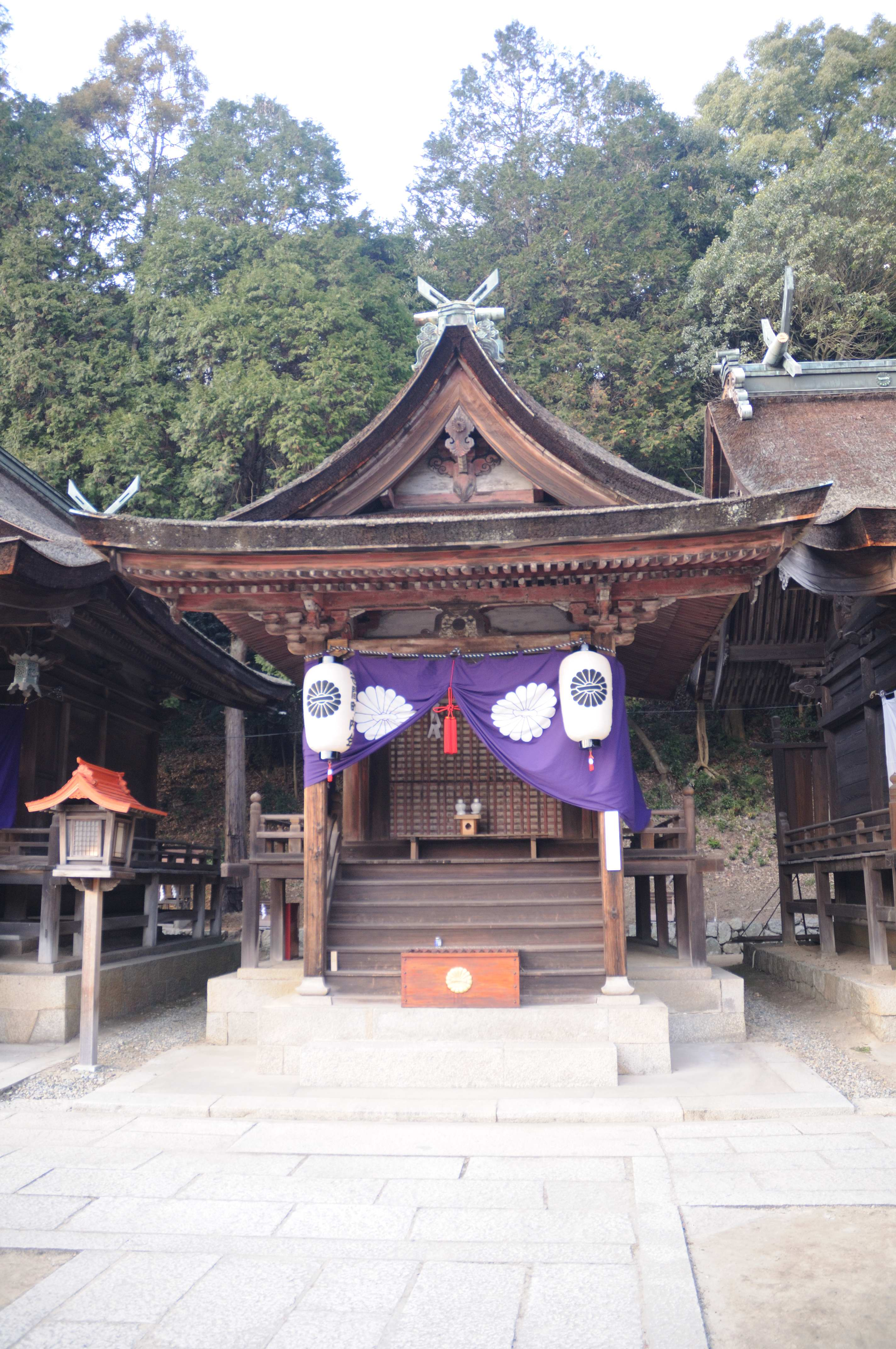 The second shrine, one of the six main shrines of Kumano Jinja(Japan's national important cultural property), Kurashiki, Okayama Pref., Japan